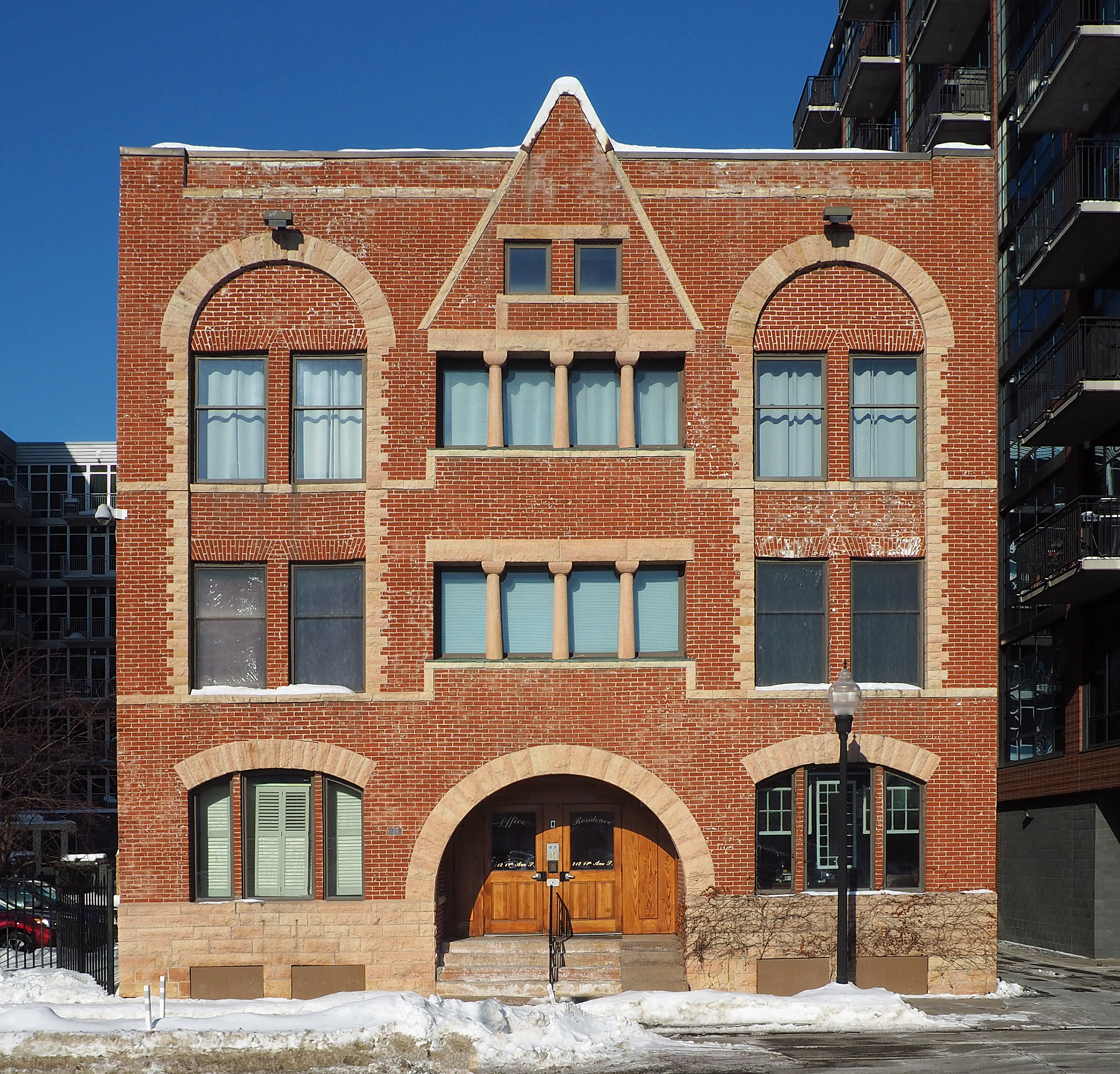 Ida Dorsey's Sporting House, 212 11th Ave S, Minneapolis, Minnesota, USA. Viewed from the southeast.